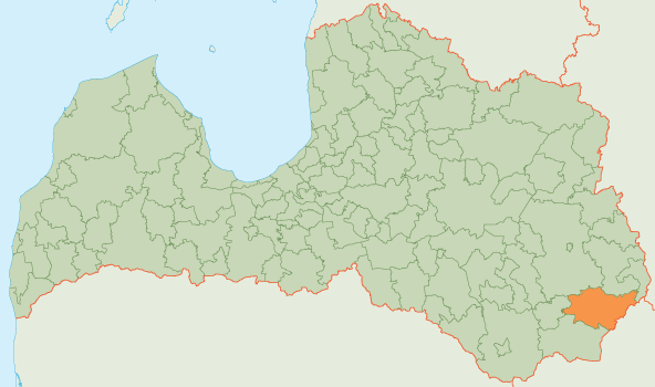 Map of Dagda